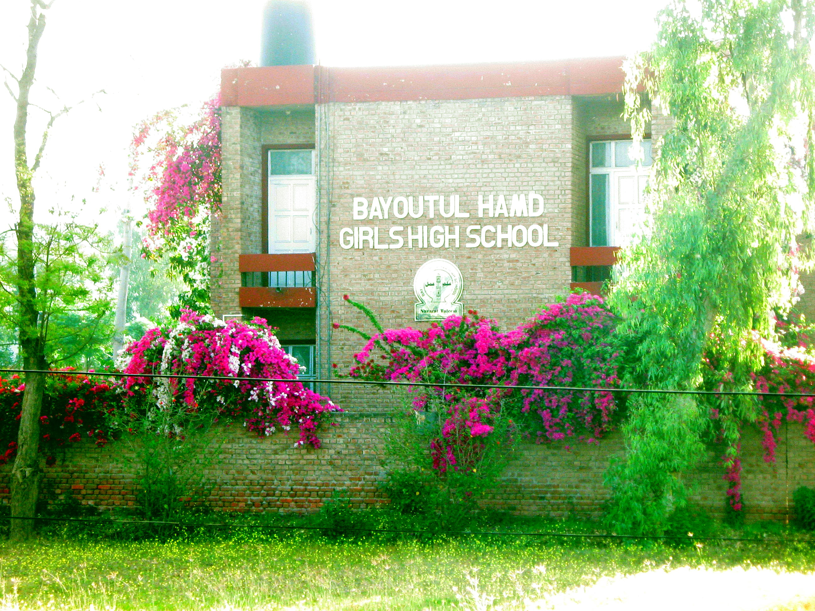 Bayoutul Hamd Girls Higher Secondary School Rabwah